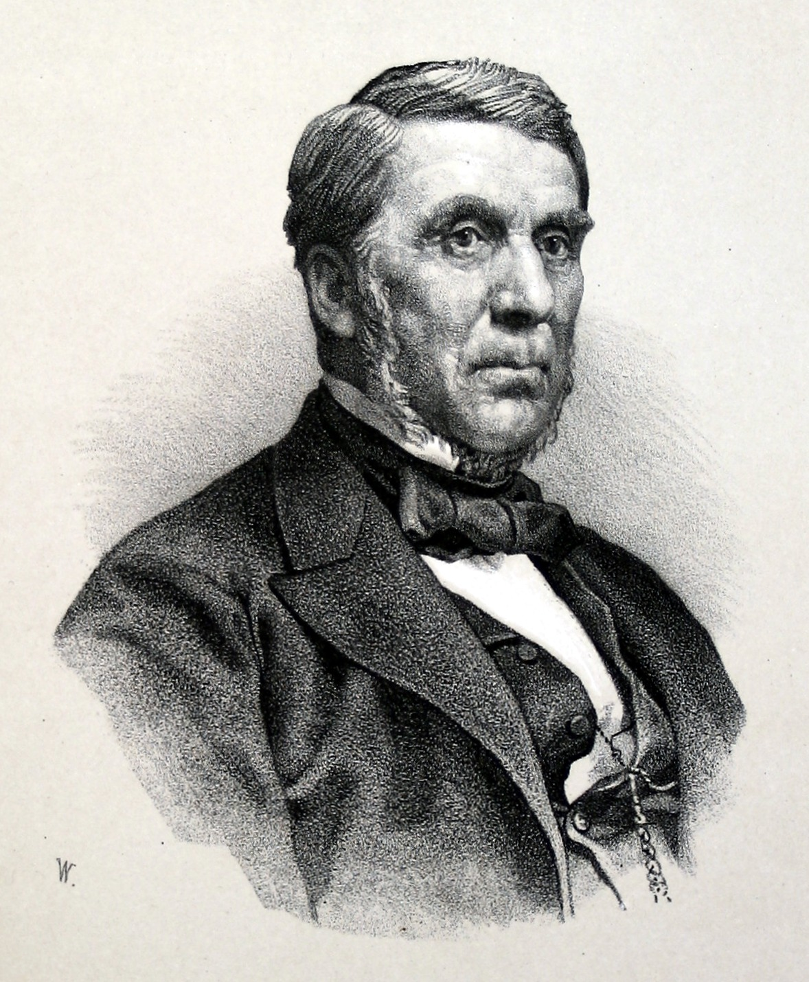 Portrait of Edward Albrekt Ollman from the book "Svenska industriens män" (1875)